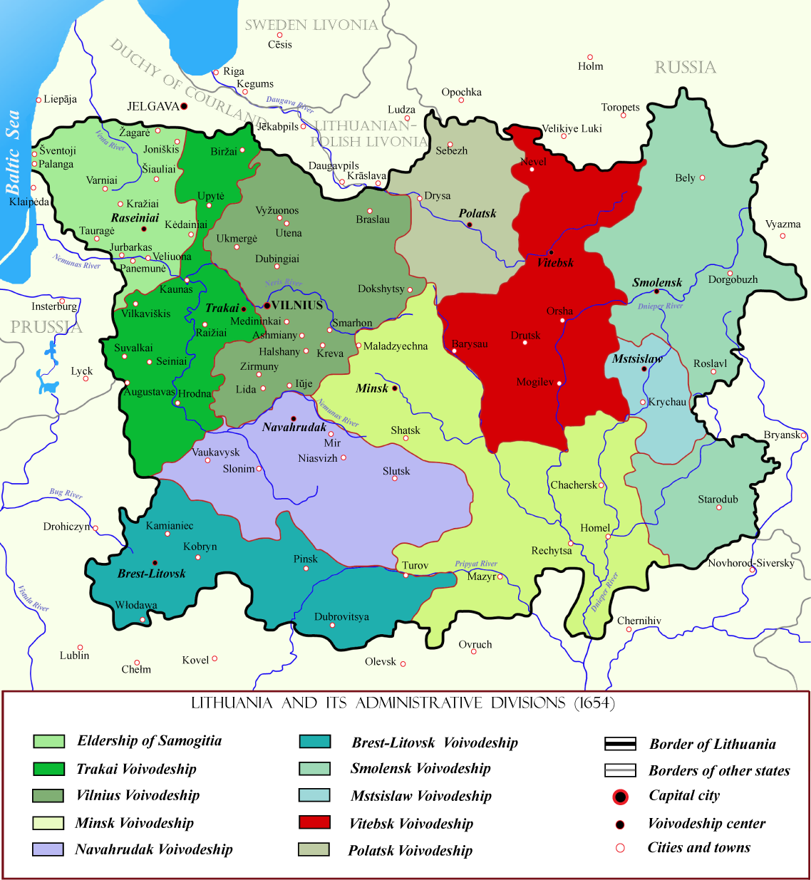 Vitebsk Voivodeship (red) within Lithuania in the 17th century